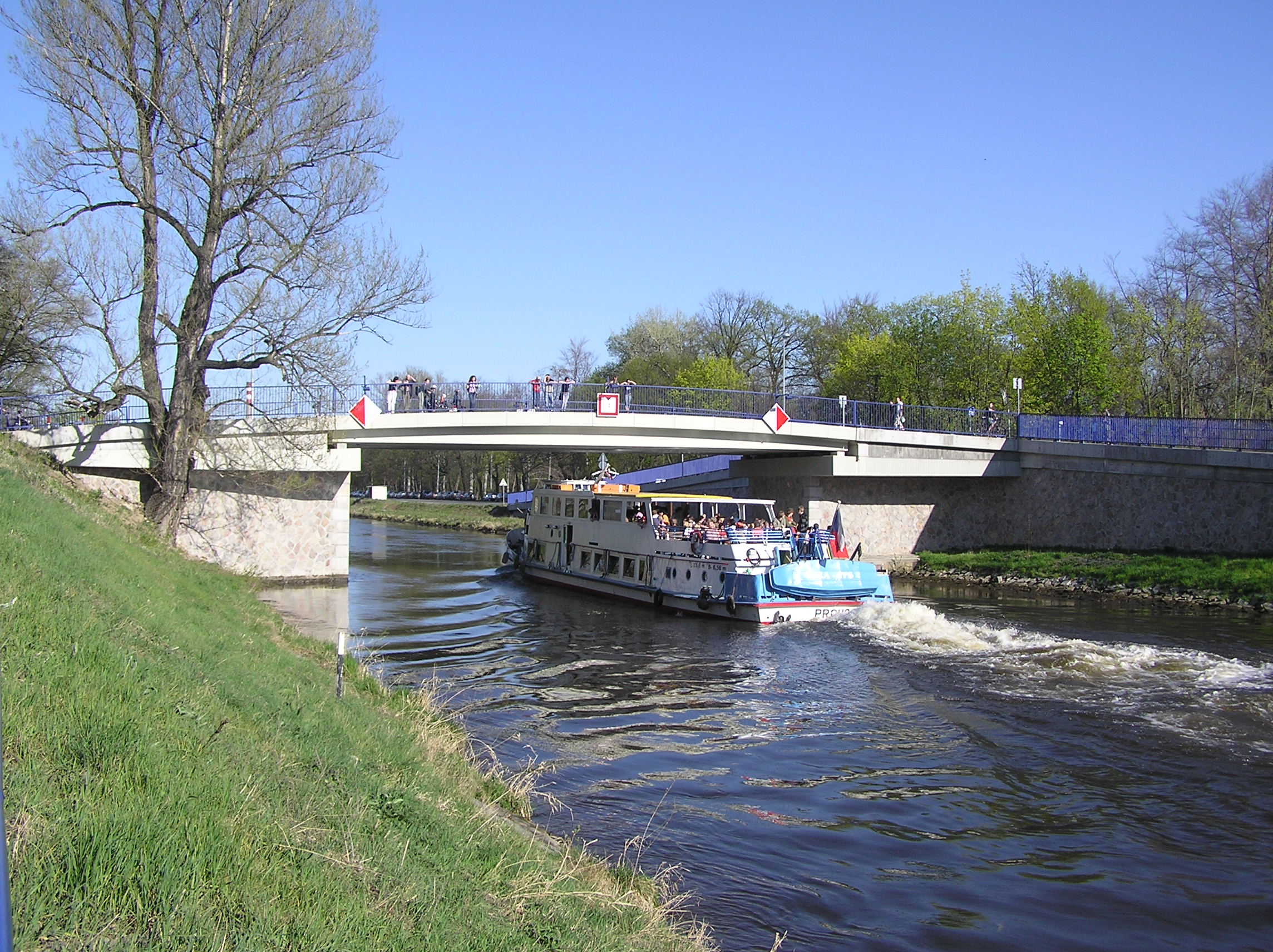 Imperial island bridge in Prague